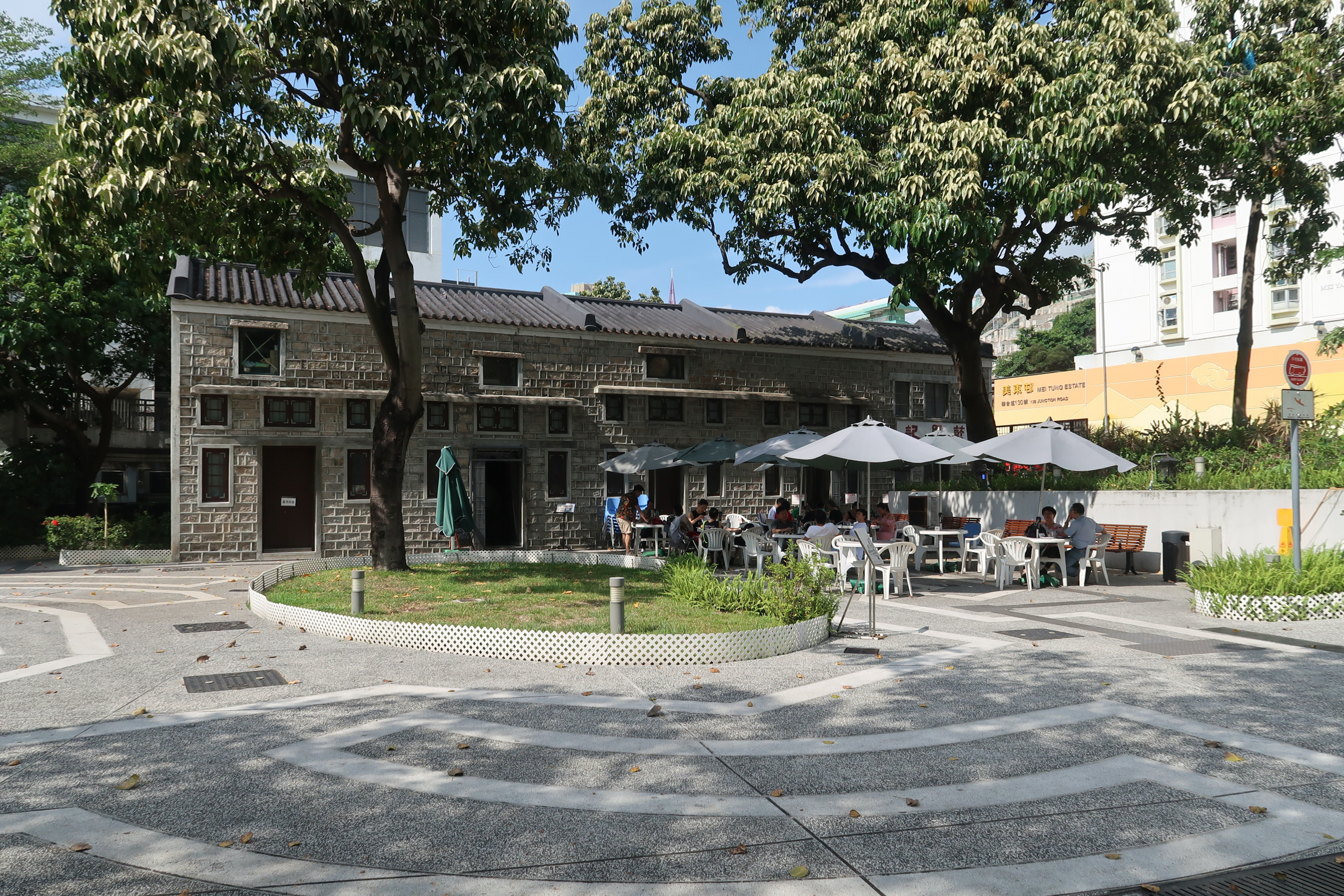 Stone Houses Family Garden